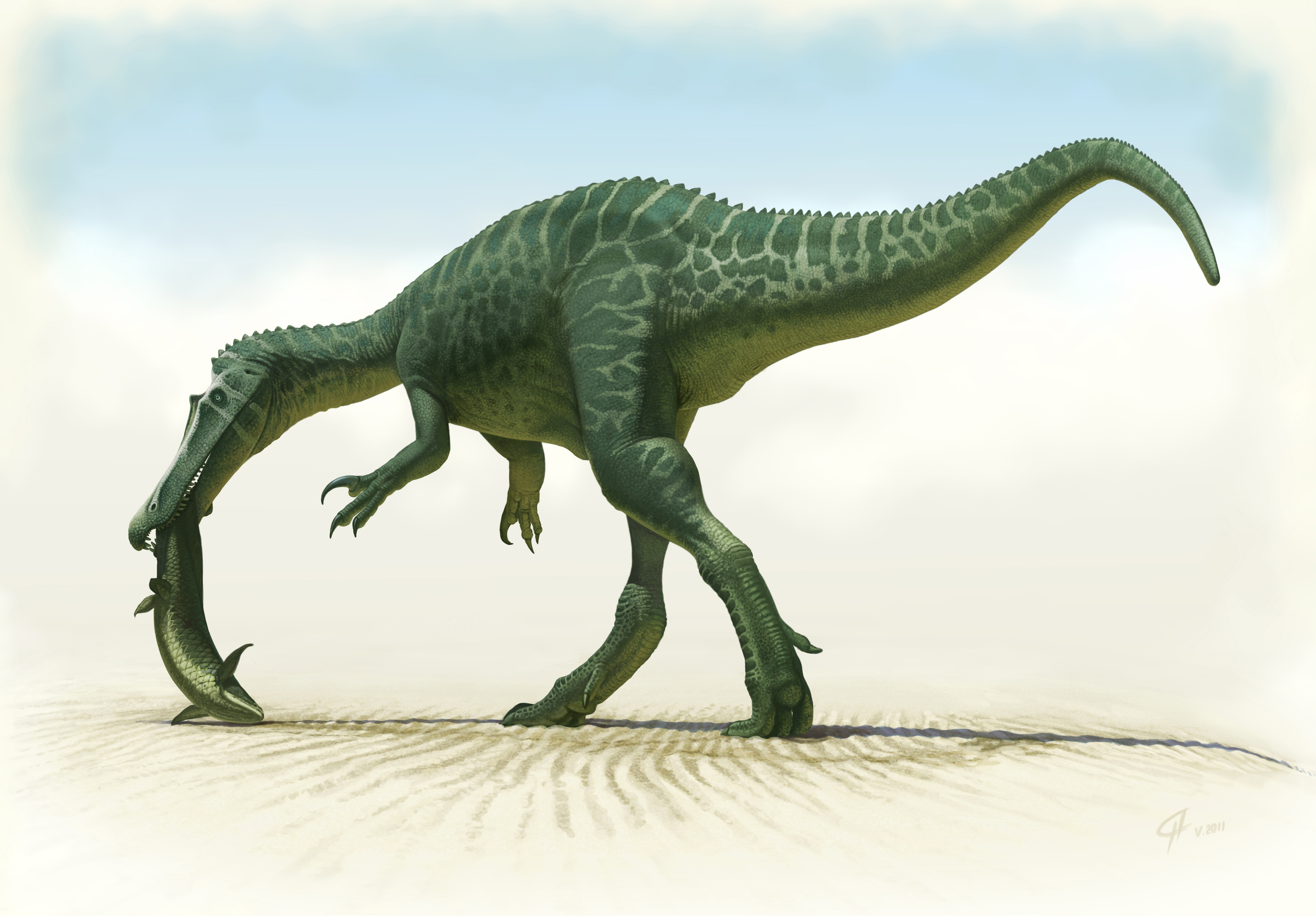 Artistic reconstruction.